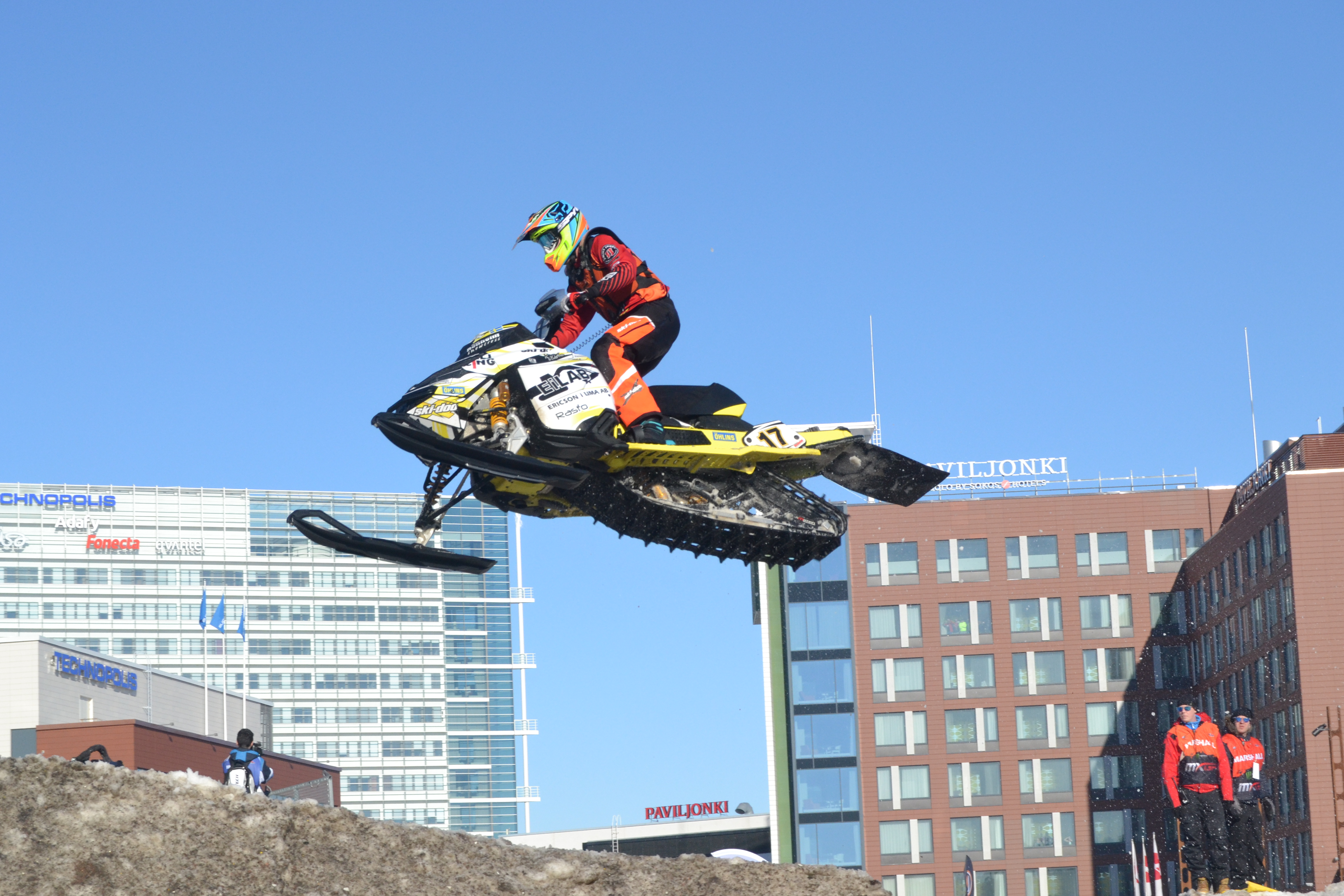 Adam Renheim at 2016 Snowcross World Championship race in Jyväskylä, Finland